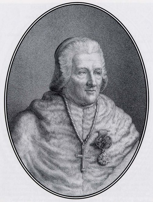 Jean-Baptiste de Belloy (1709-1808)